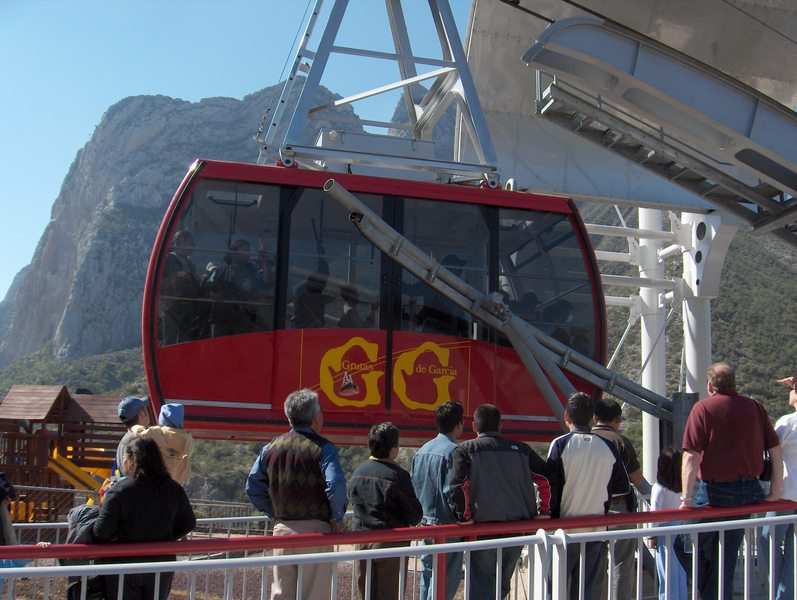 Telepherique in García Nuevo León Caves, Near Monterrey México.